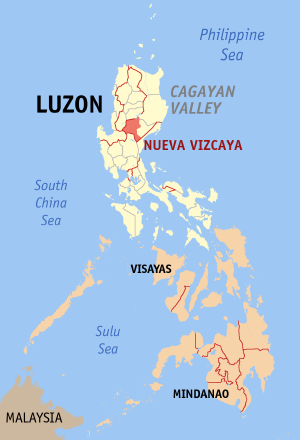 Map of the Philippines showing the location of Nueva Vizcaya